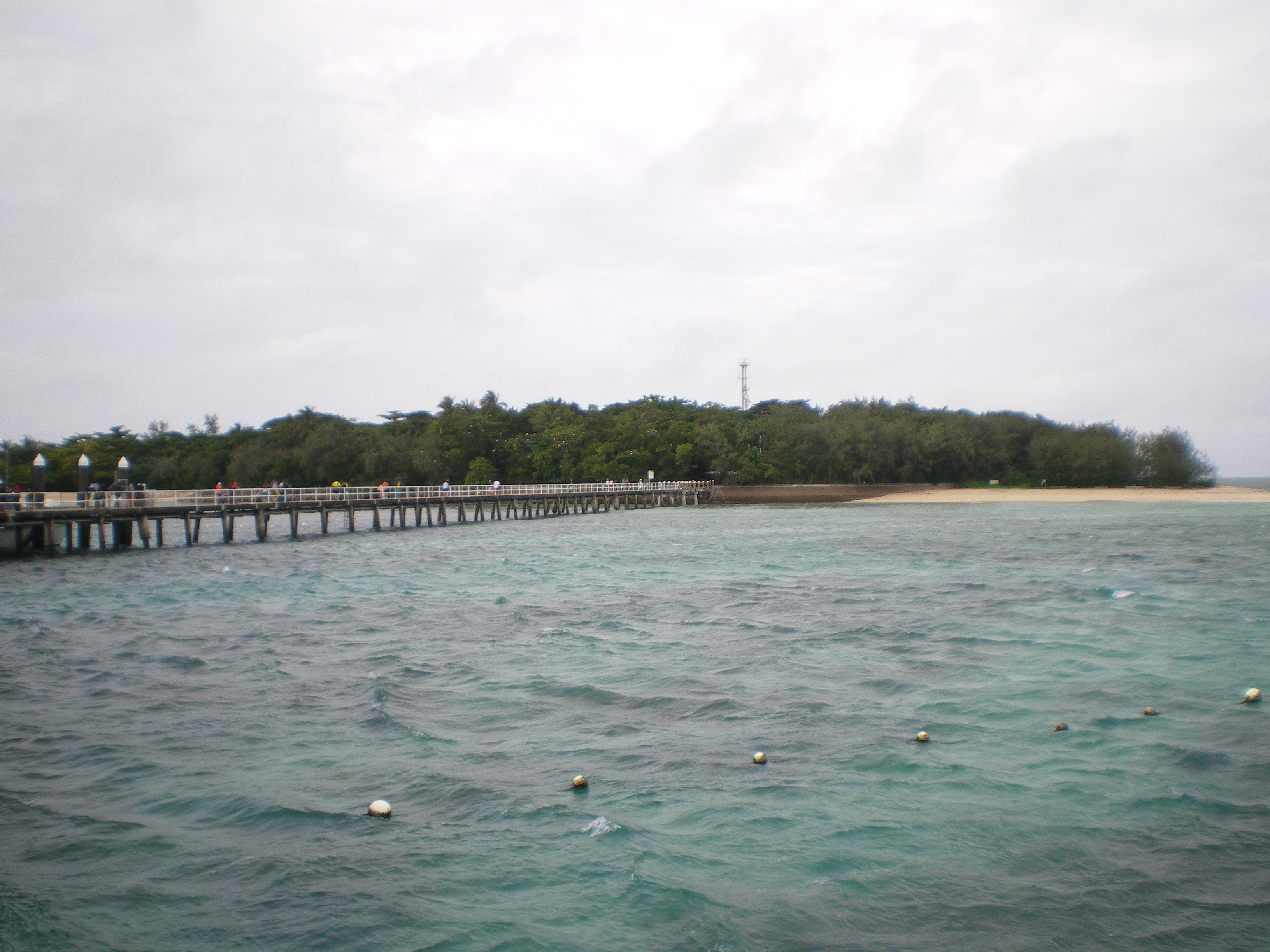 Green Island off the QLD coast